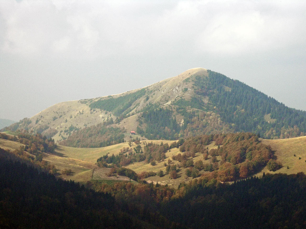 Borišov Mountain with the Borišov Chalet from Kračkov Mountain, Grater Fatra Range, Slovakia (bad quality, very foggy, but a good overall image of the mountain)